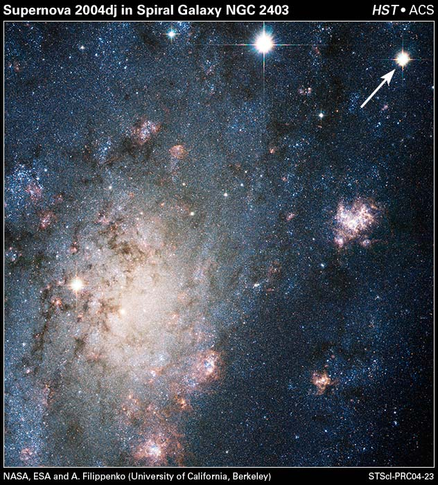 Originally from